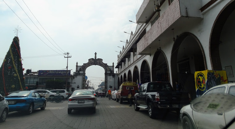 The street in the old city of Amacameca